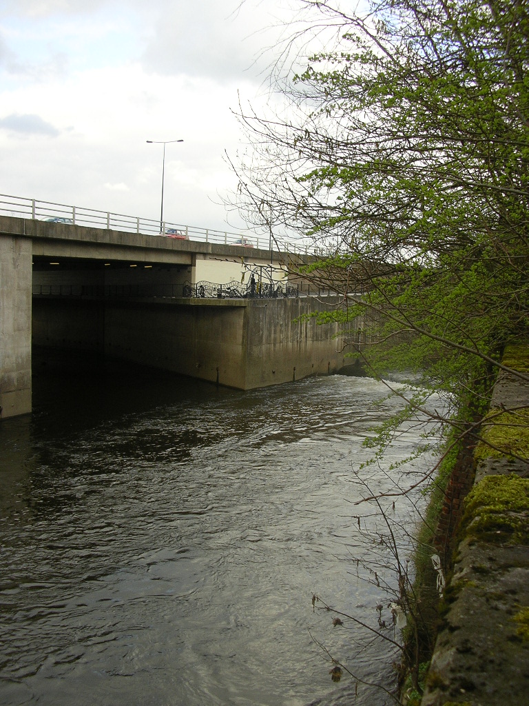 Photograph of the confluence of the River Tame and the River Goyt to form the River Mersey in Stockport. - Google Maps - Google Earth